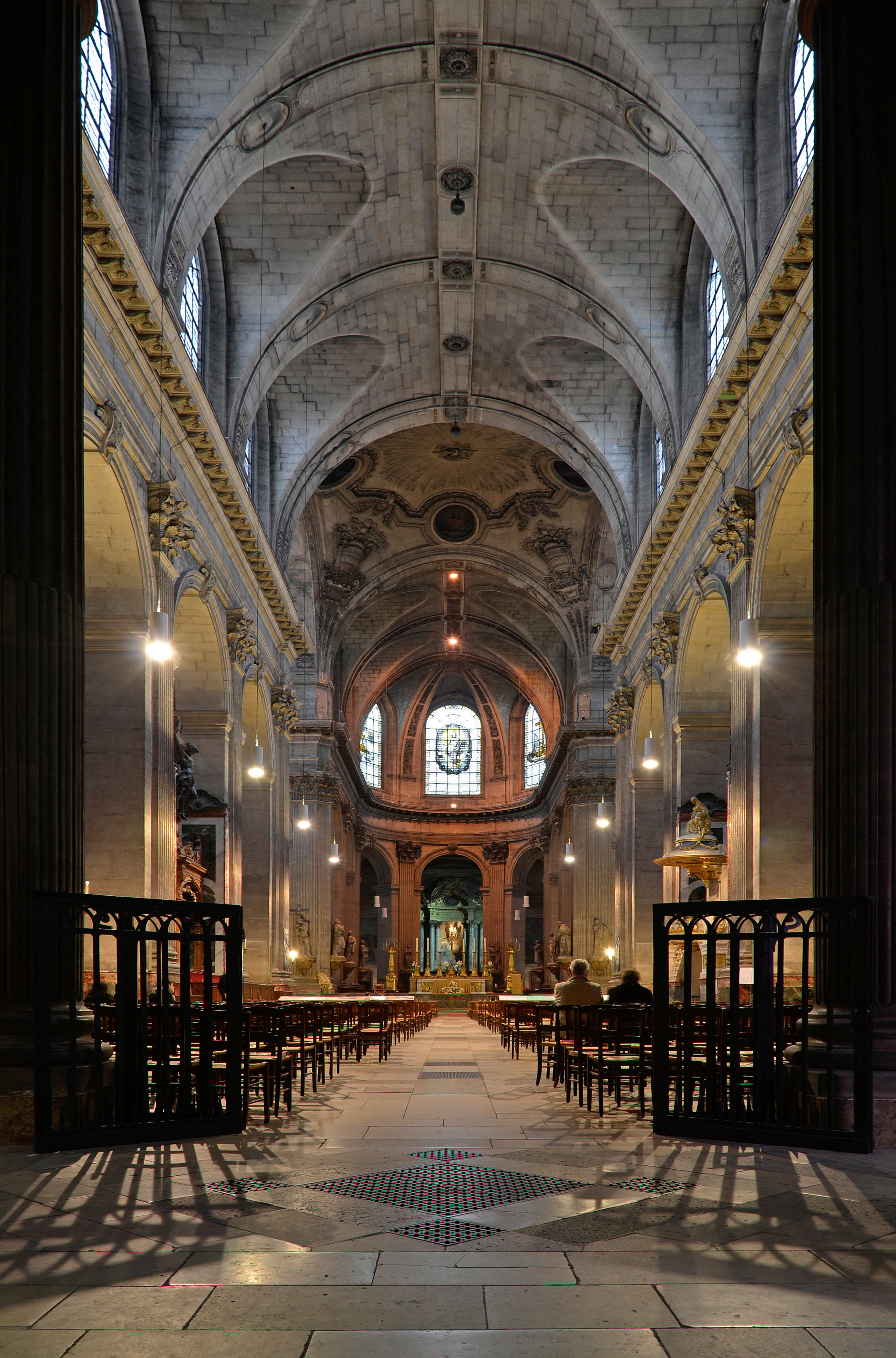 Nave and choir of Saint-Sulpice church - Paris, France